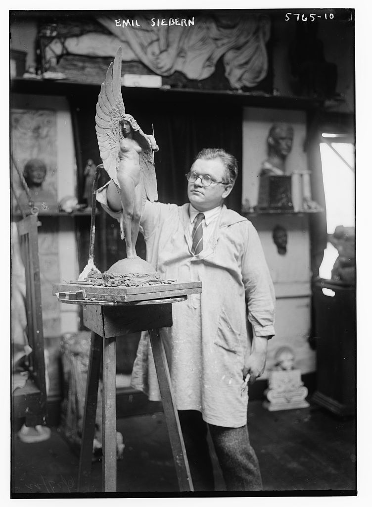 Bain News Service,, publisher. Emil Siebern [between ca. 1920 and ca. 1925] 1 negative : glass ; 5 x 7 in. or smaller. Notes: Title from unverified data provided by the Bain News Service on the negatives or caption cards. Forms part of: George Grantham Bain Collection (Library of Congress). Format: Glass negatives. For more information, see George Grantham Bain Collection - Rights and Restrictions Information Repository: Library of Congress, Prints and Photographs Division, Washington, D.C. 20540 USA, Part Of: Bain News Service photograph collection (DLC) 2005682517 General information about the George Grantham Bain Collection is available at Higher resolution image is available (Persistent URL): Call Number: LC-B2- 5765-10